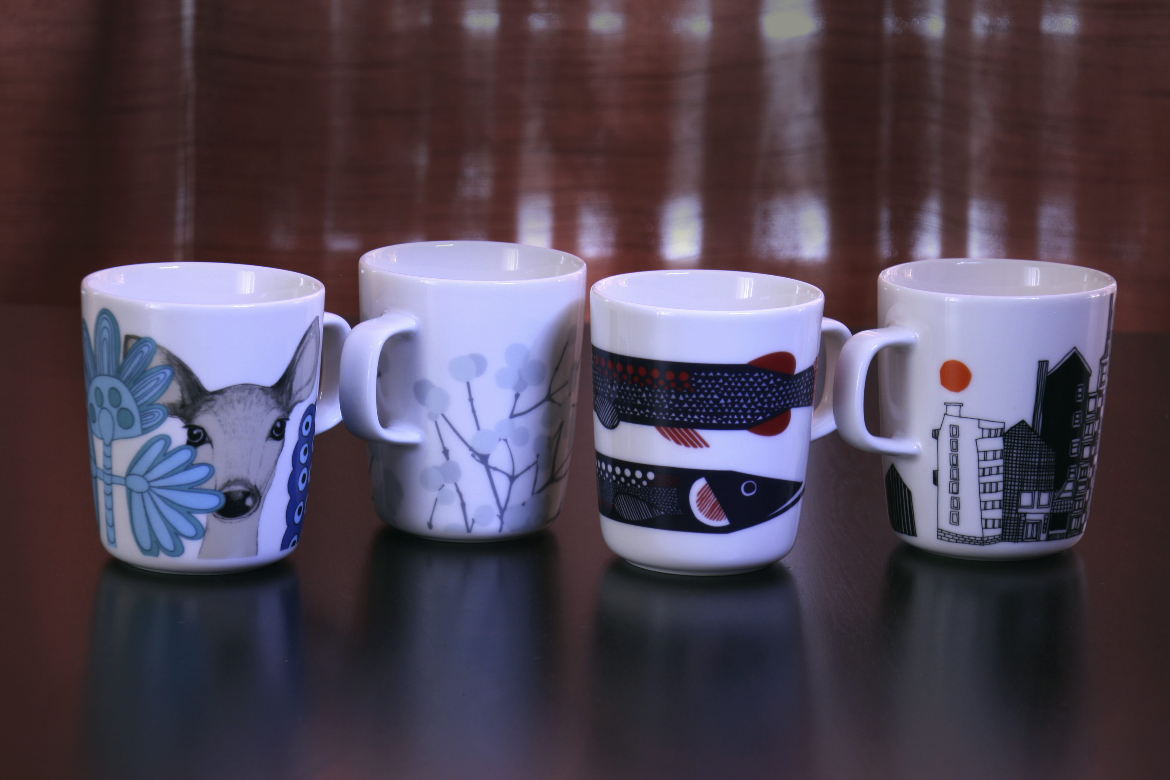 Modern mugs by Marimekko (2010-2014)